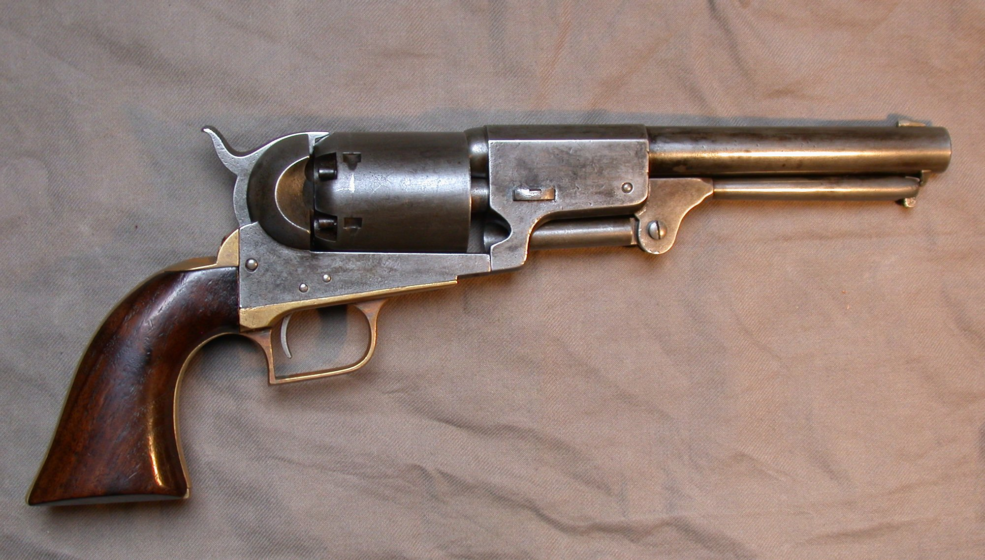 Colt Dragoon 2nd Model